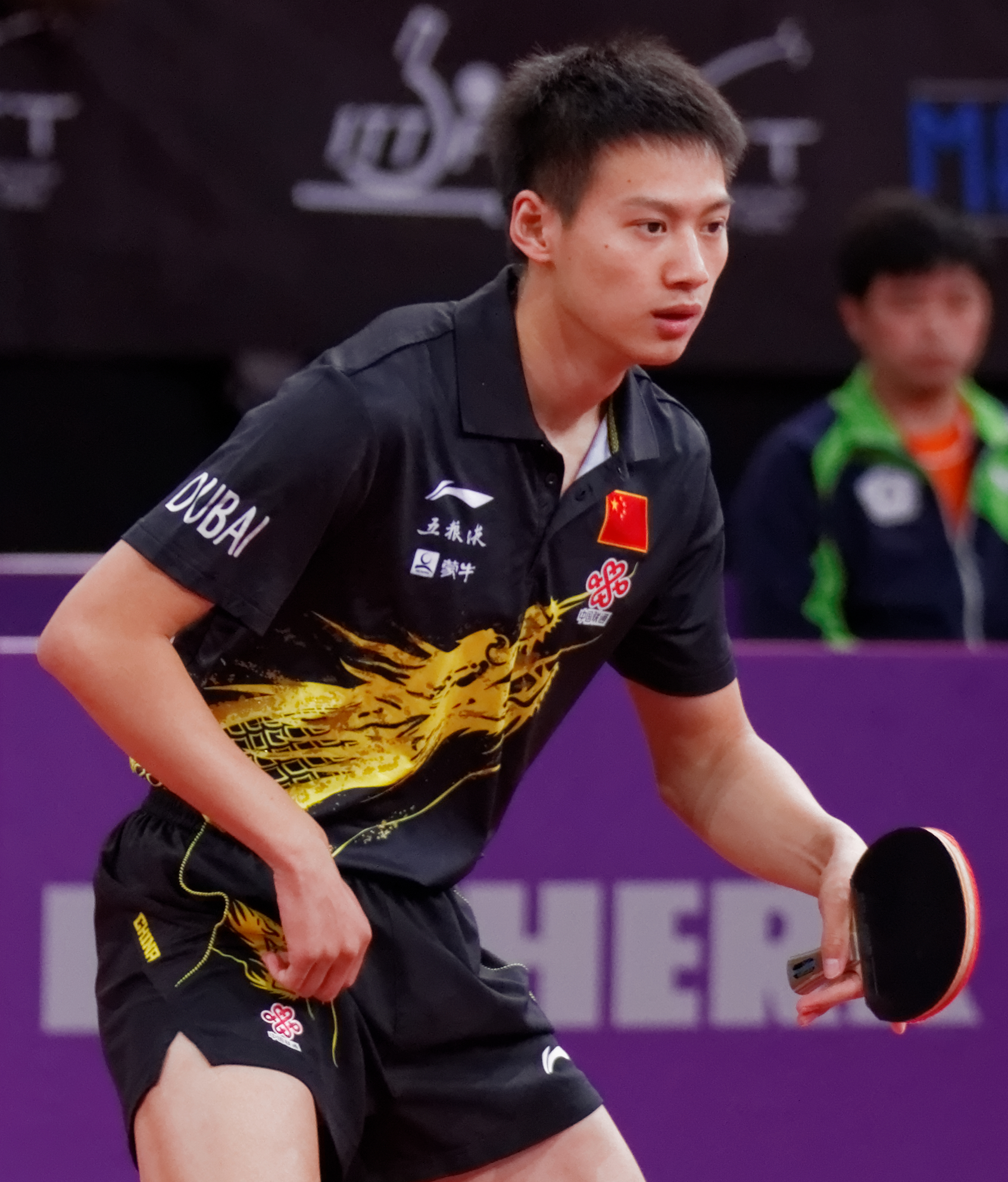 2013 World Table Tennis Championships, Paris. Men's Doubles Semifinals. Wang Liqin - Zhou Yu vs Chen Chien-an - Chuan Chih-yuan.